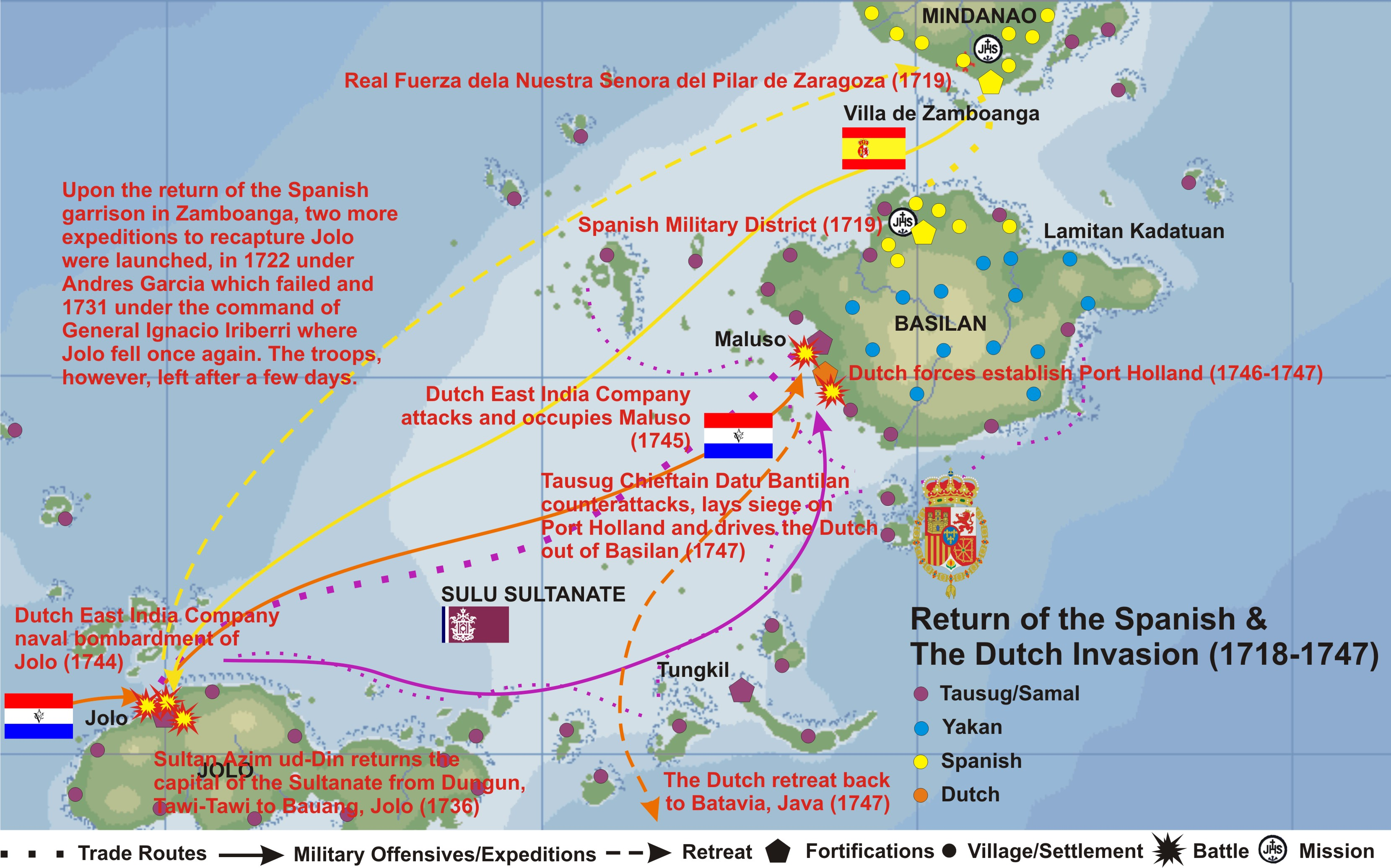 Basilan_Expanded_1718-1747